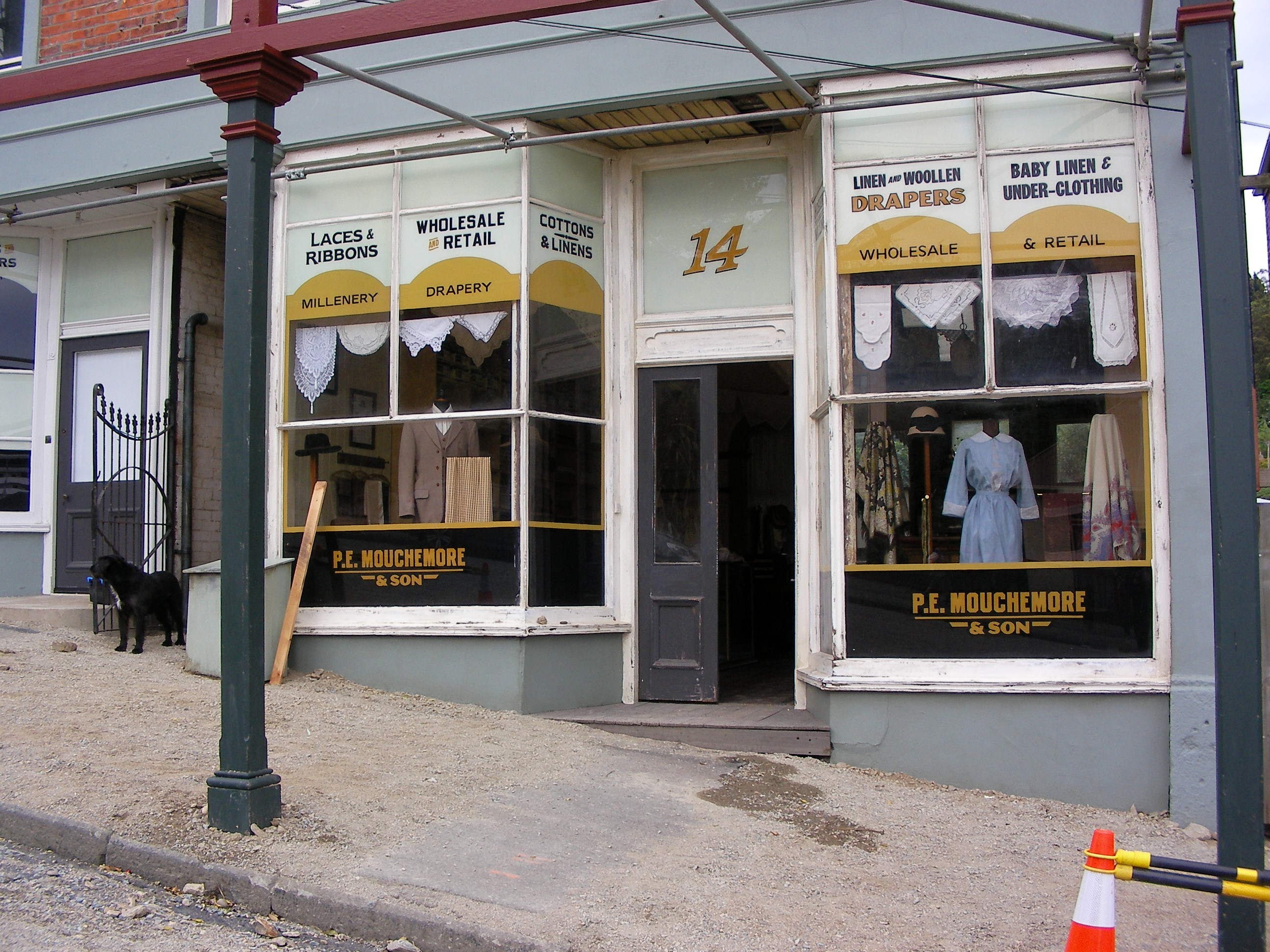 The Light Between Oceans (film) location, Grey Street, Port Chalmers, New Zealand. The shop has been modified inside and out for use in the film.